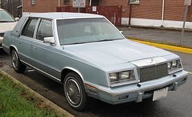 1987 Chrysler New Yorker Sedan, an E Body